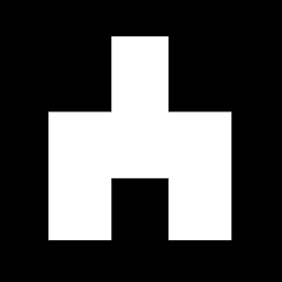 The geometric shape used as a symbol in the Black Mirror episode "White Bear".